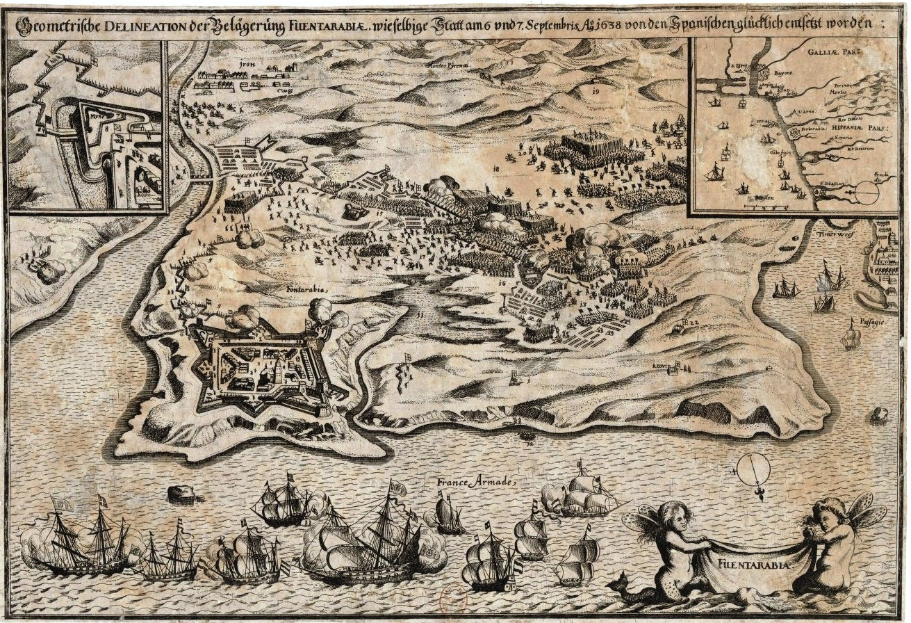 Overview of the siege of the fortress of Hondarribia in 1638 with ground troops and French squadron at sea. German engraving.